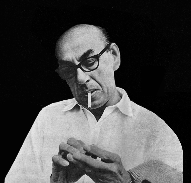 Professor Henryk Tomaszewski, poster designer